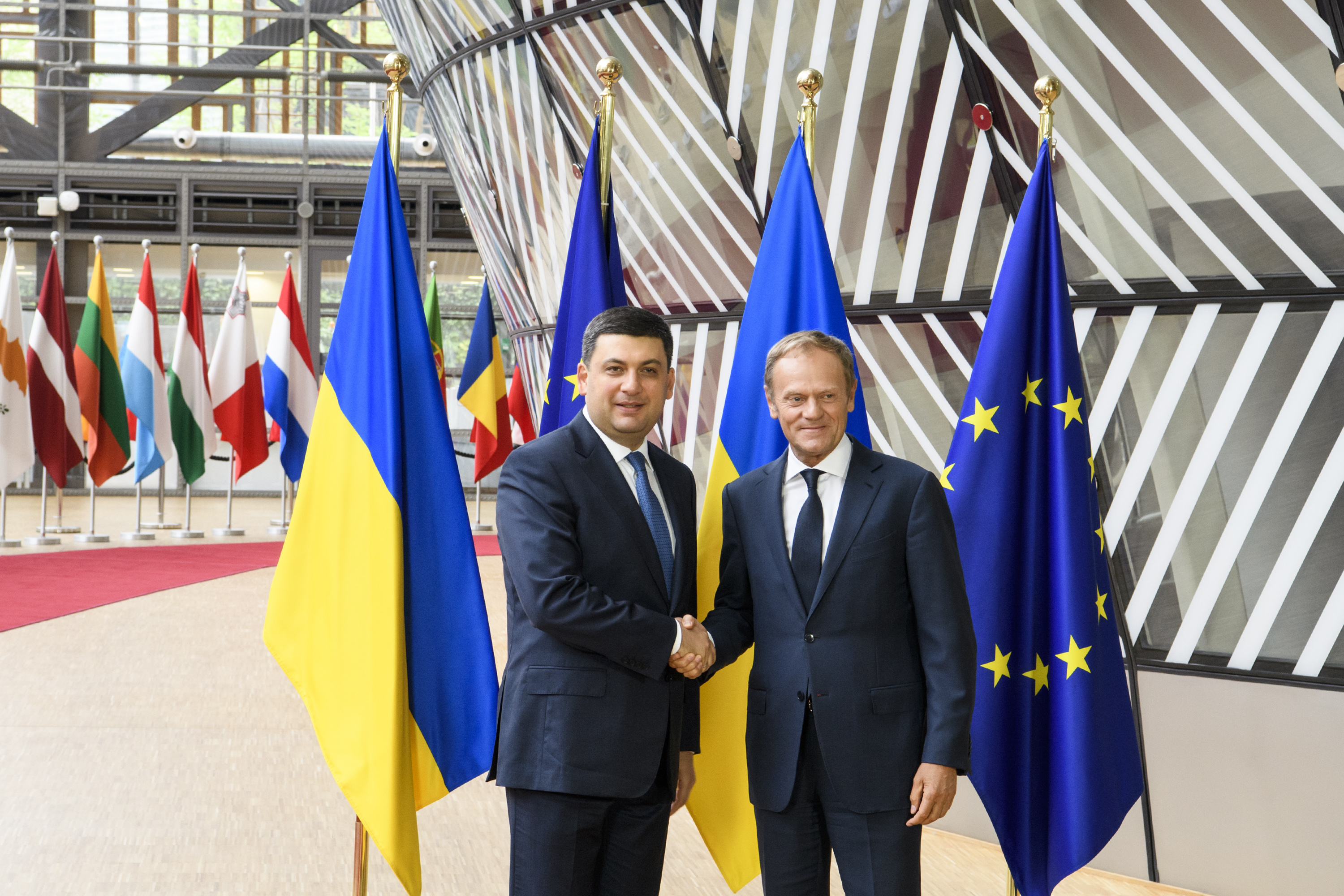 Prime Minister of Ukraine Volodymyr Groysman had talks with President of the European Council Donald Tusk